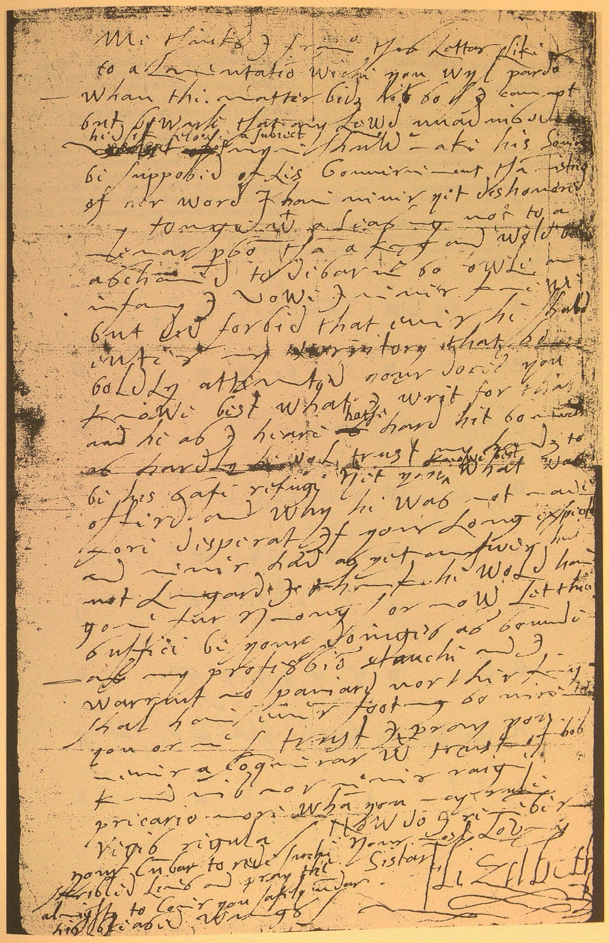 An autograph letter of Queen Elizabeth I to her future successor James I. Washington (D.C.), Folger Shakespeare Library, MS. X. d. 397, fol. 1v.